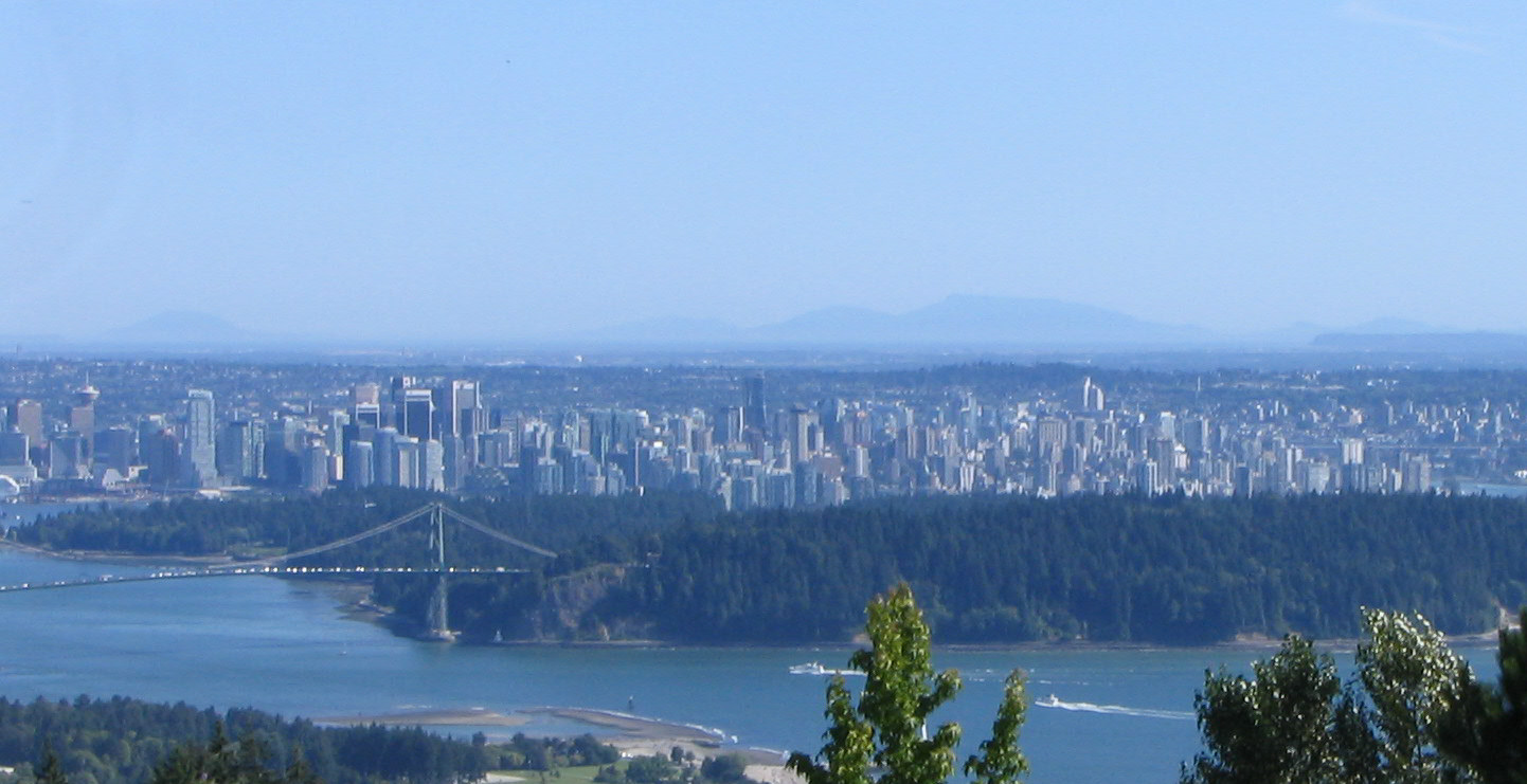 This image was created by me, Flying Penguin of Pacific Spirit Photography of Burnaby, British Columbia, Canada.